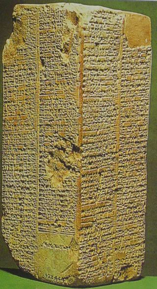 The best existing Sumerian King List 中文（台灣）: 現存最完好的蘇美爾王表 中文（中国大陆）: 现存最完好的苏美尔王表